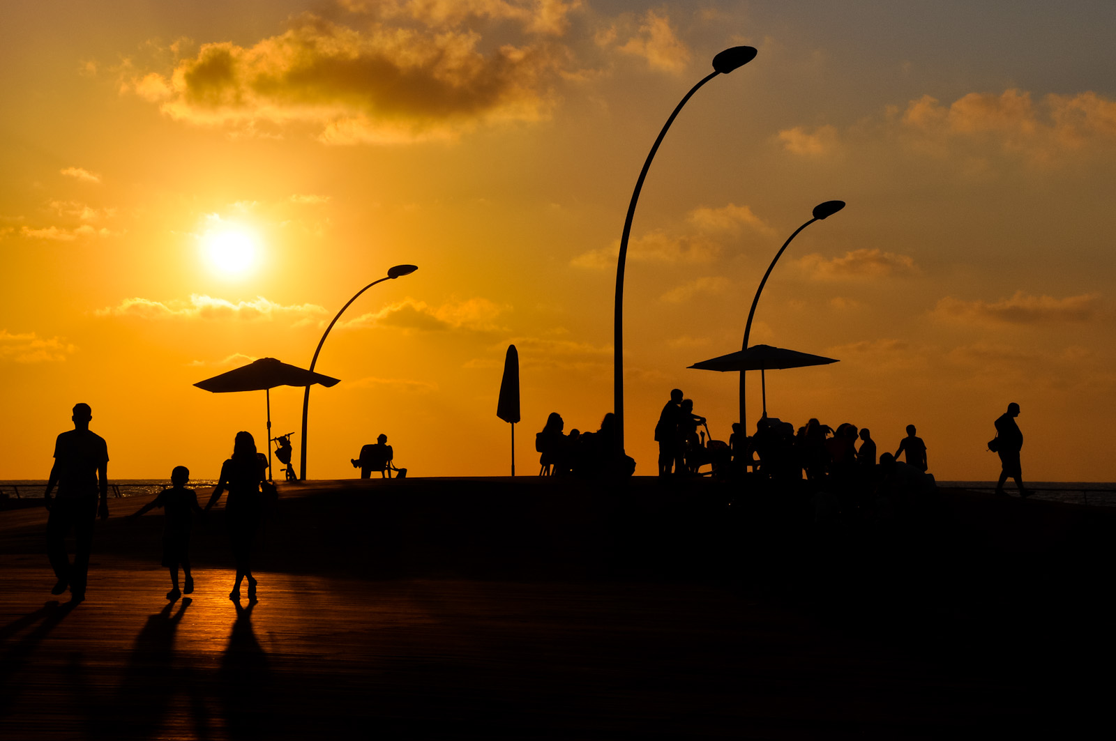 Tel Aviv port